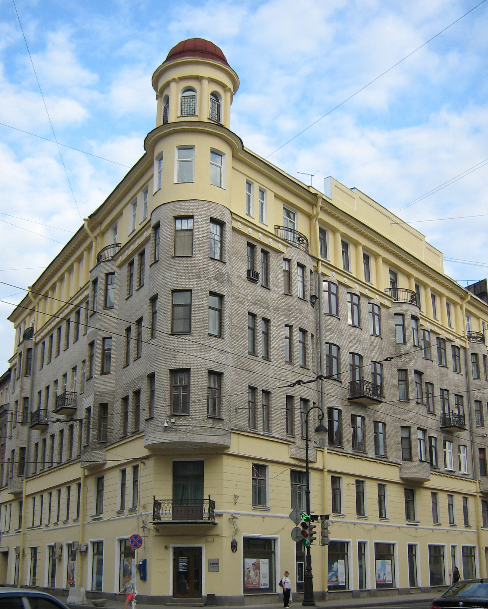 Kamennoostrovsky av., 53, Saint-Petersburg, Russia (architect S.G.Ginger, 1910).